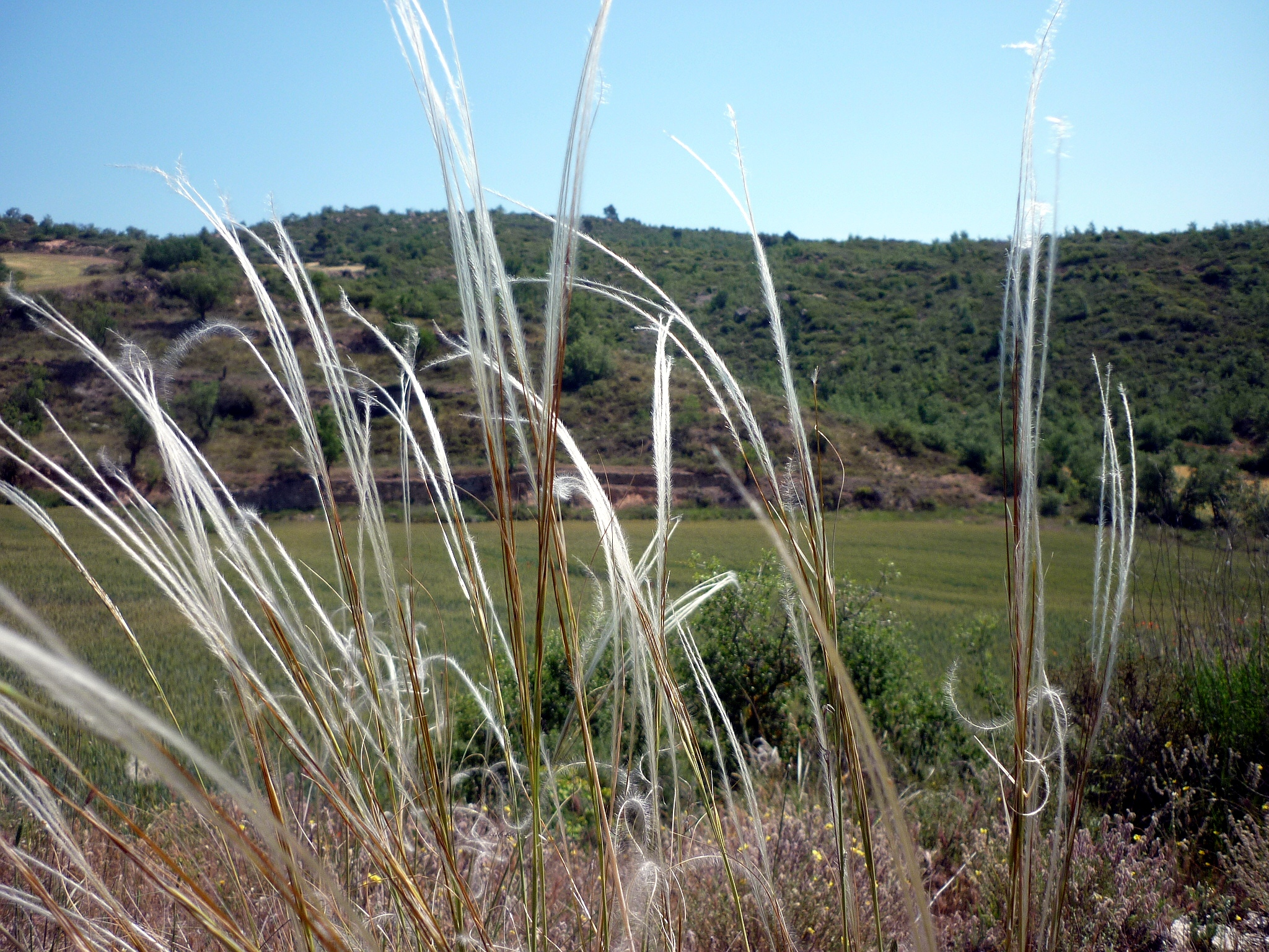 Stipa pennata. In Torà (Segarra-Catalunya). To 470 m. altitude